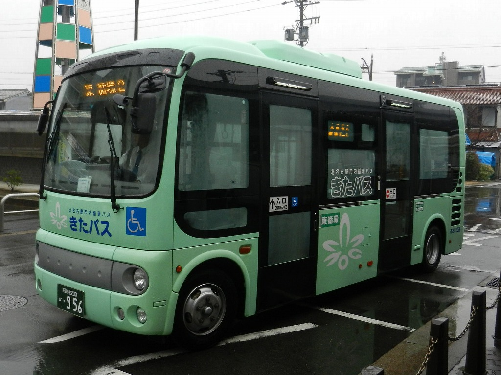 Kita Nagoya city community bus "Kita-bus" (Operated by Aoi-kotsu) Hino Poncho (BDG-HX6JLAE)